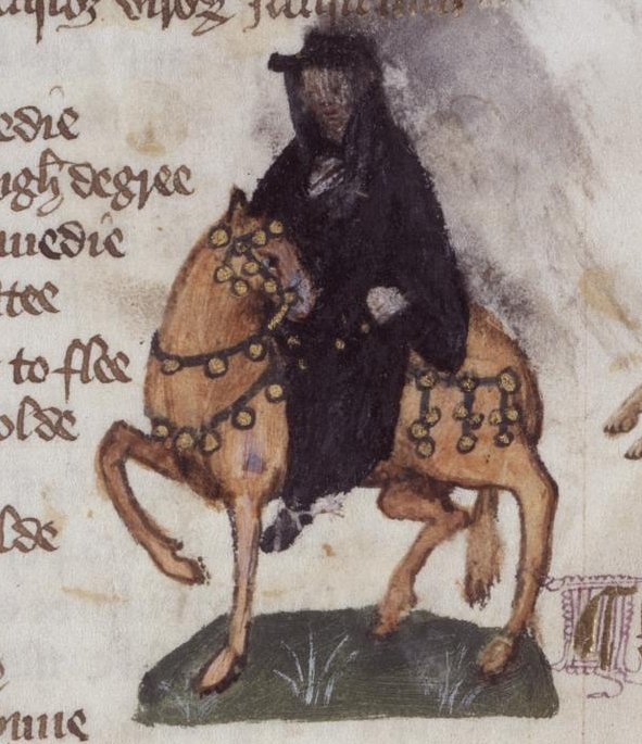 The Monk in the Ellesmere manuscript of Geoffrey Chaucer's Canterbury Tales.